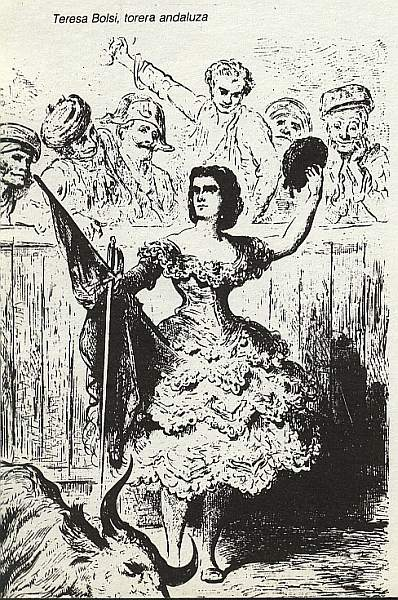 Teresa Bolsi, female Andalousian bullfighter (1862)